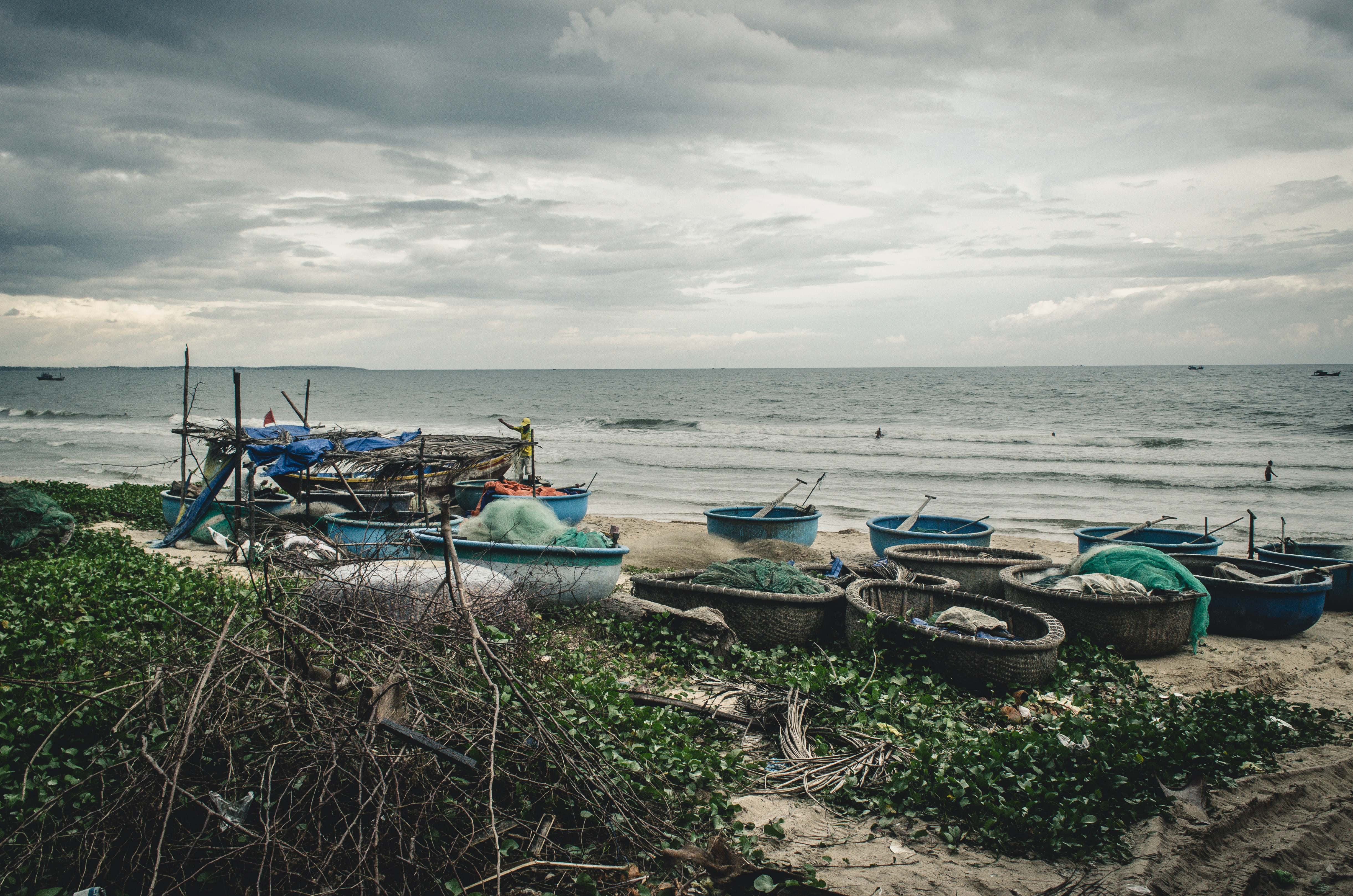 Mui Ne Beach